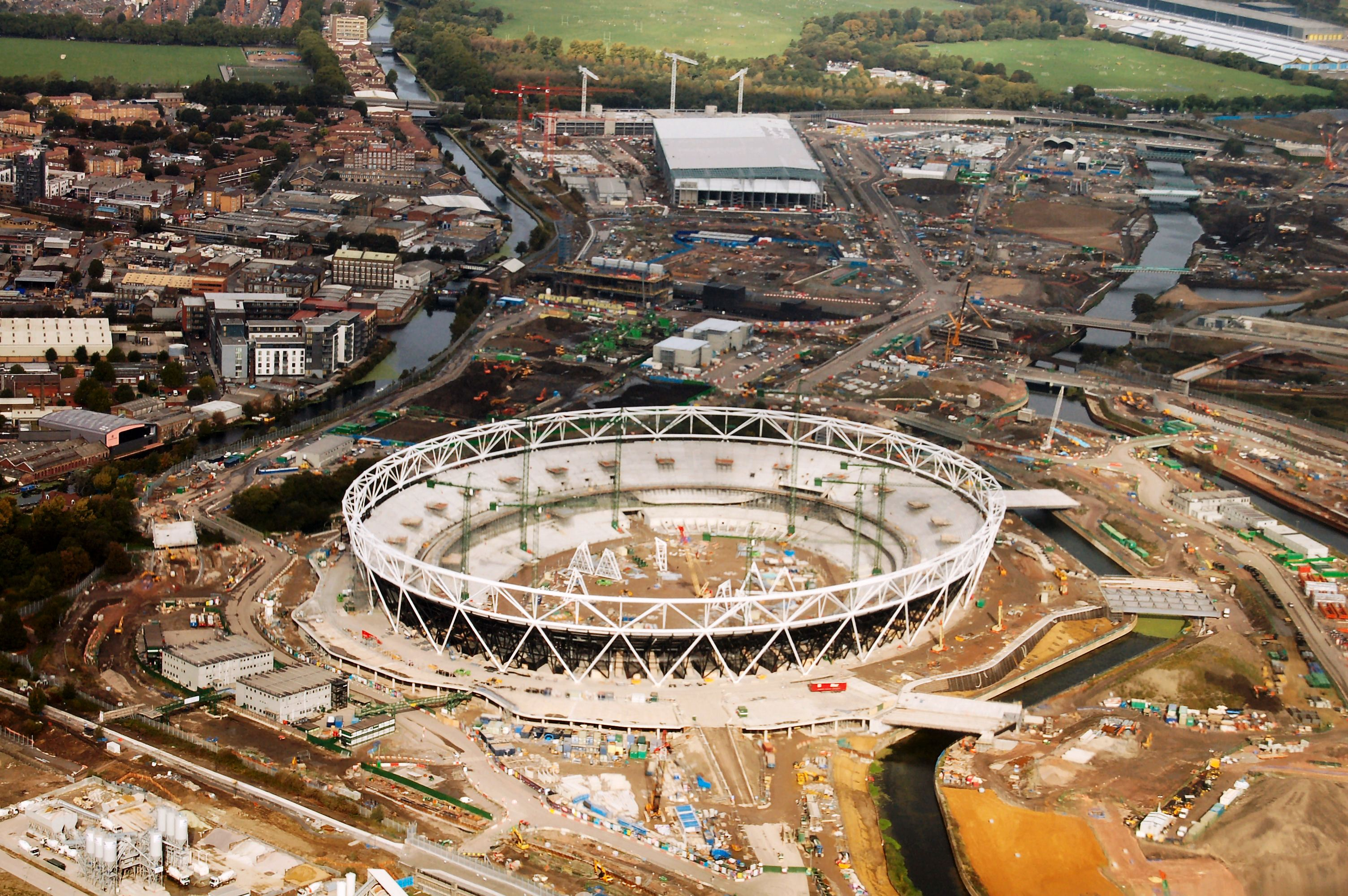 Construction of Olympic Park, London — (Oct. 2009). Construction of 2012 Olympic Stadium in London.